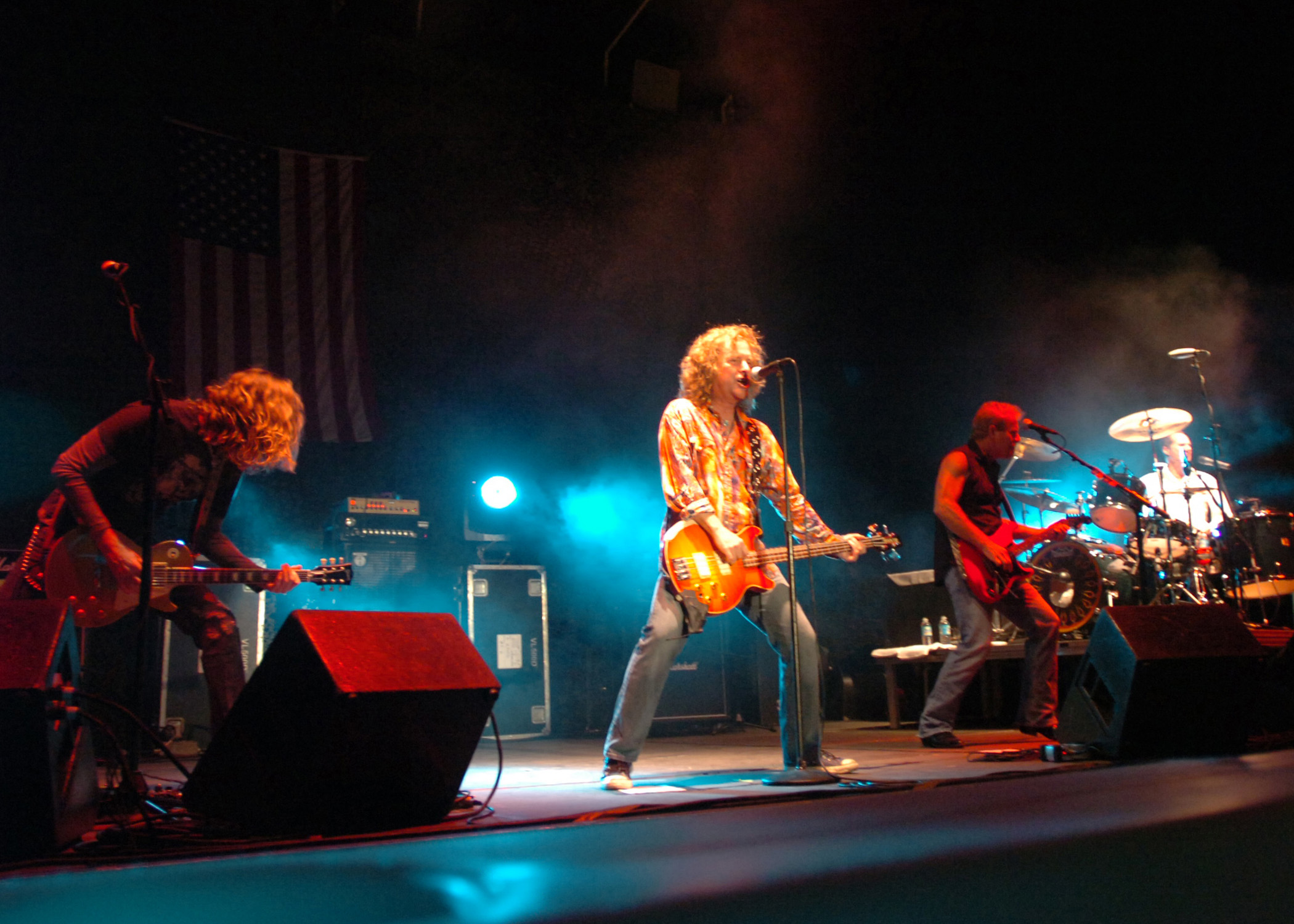 Guantanamo Bay, Cuba – Hard rock band Night Ranger performs for the Troops at the Downtown Lyceum Jan. 21, 2008. The group is known for its 80’s hit ‘Sister Christian.’